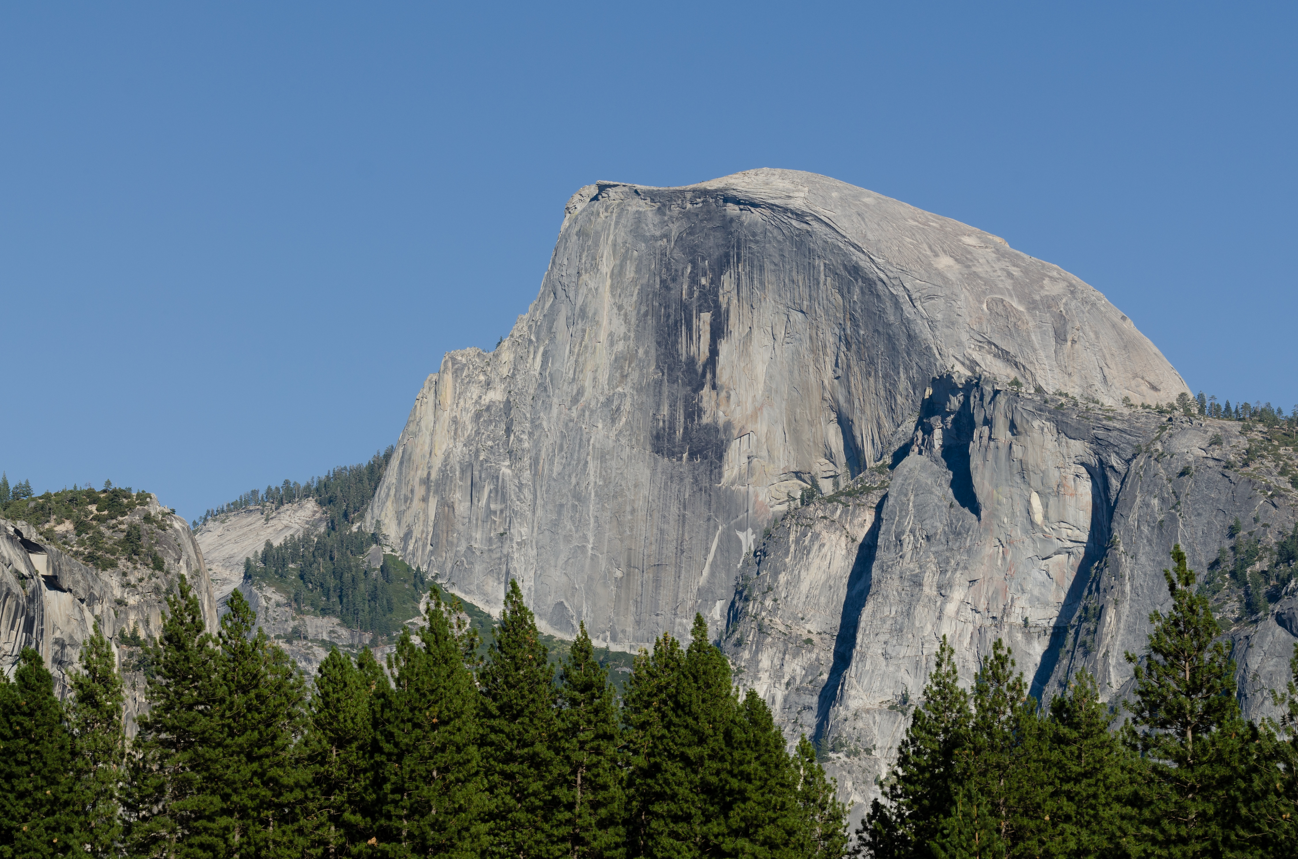 Half Dome in Yosemite National Park. Photographed from Glacier Point.